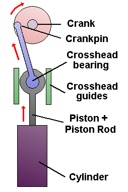 Very simple diagram of a crosshead bearing